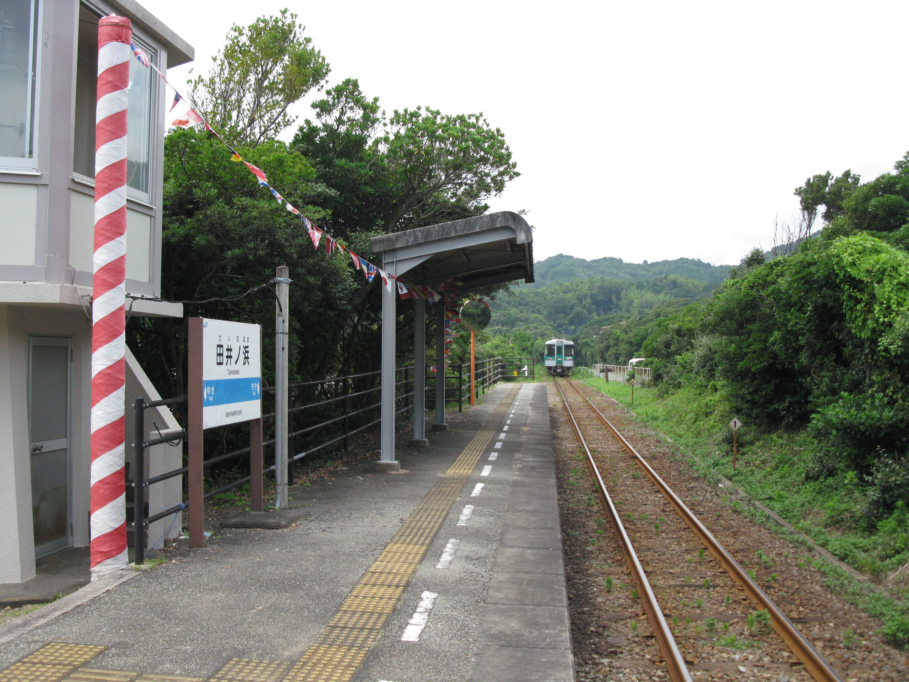 The platform at Tainohama Station on Shikoku Railway(JR Shikoku) Mugi Line in Minami town, Tokushima prefecture, Japan